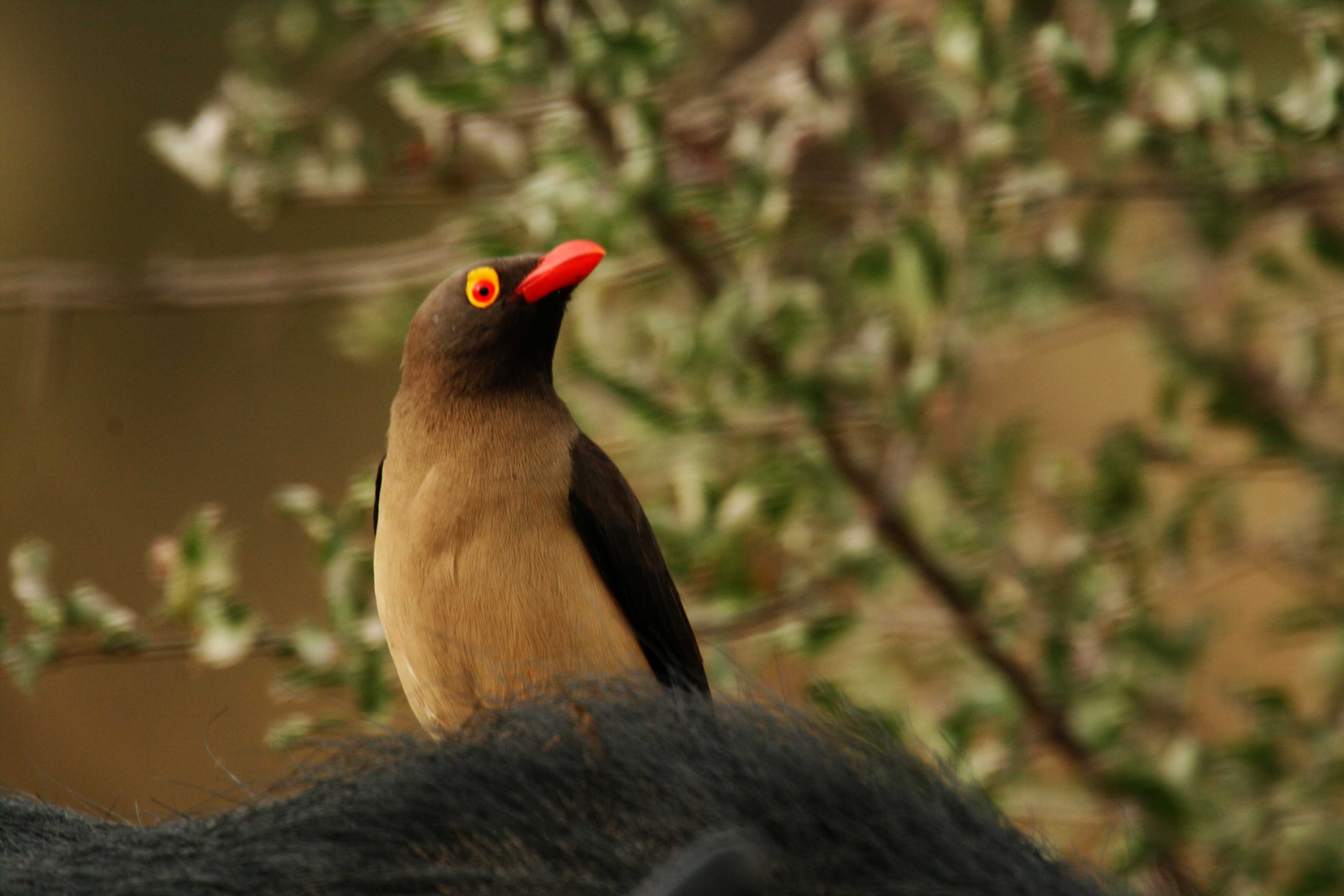 Close up view of a red-billed oxpecker on a buffalo. Sabi Sands, South Africa. Photo by Lee R. Berger.